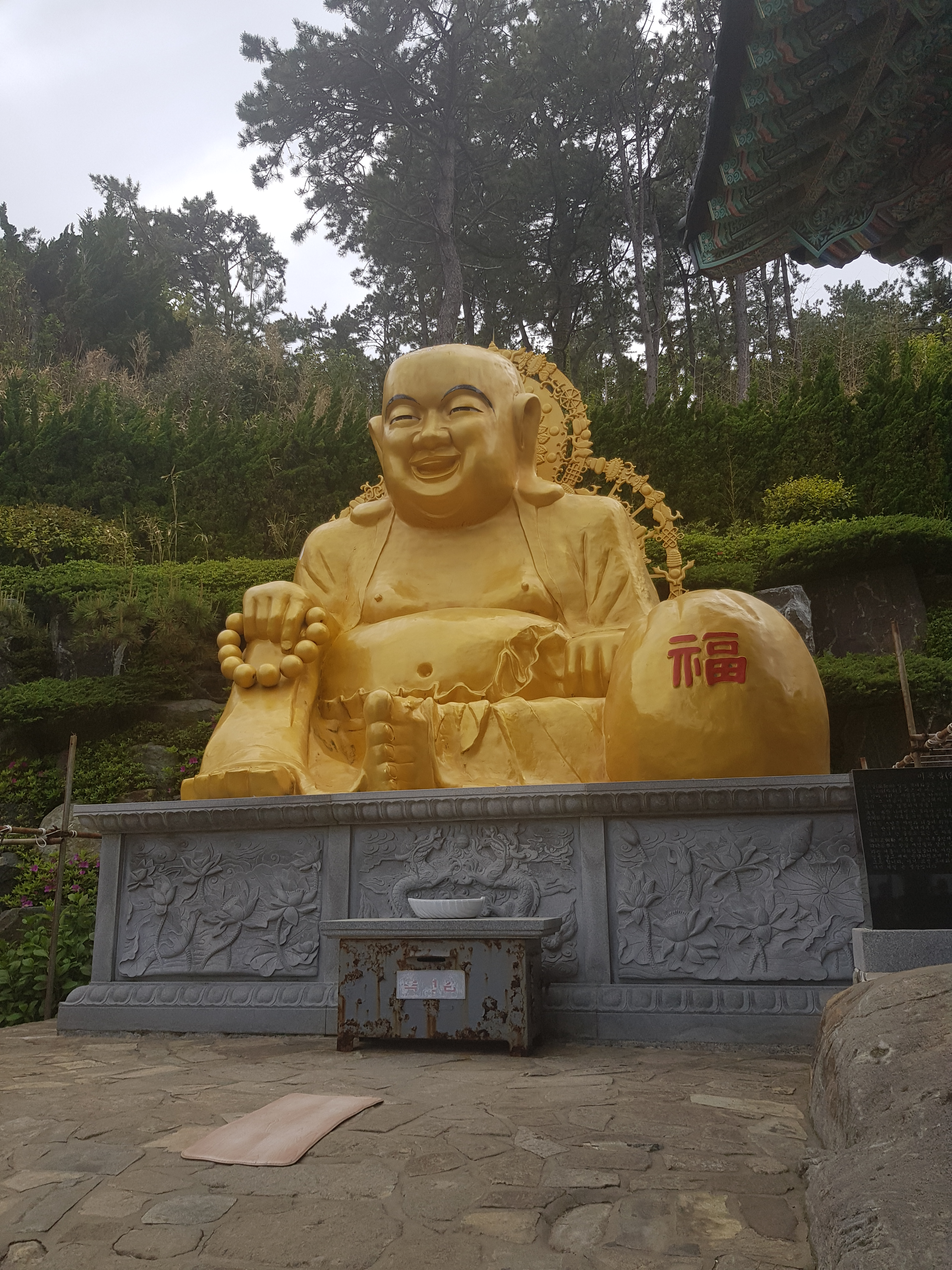 Gold Statue of Bodhidharma in Haedong Yonggungsa